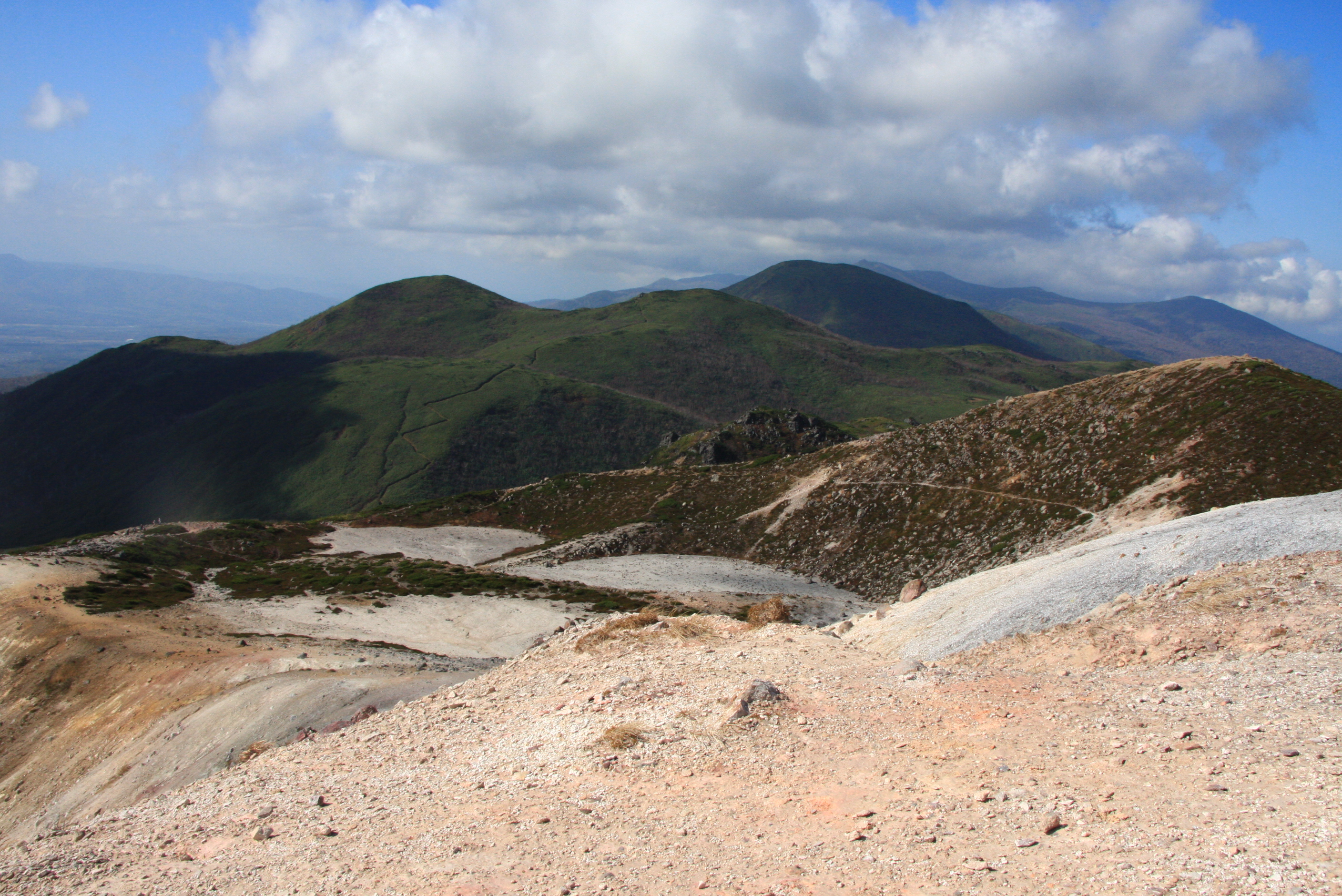 The West view from Iwaonupuri in Hokkaido. Nitonupuri in the center.